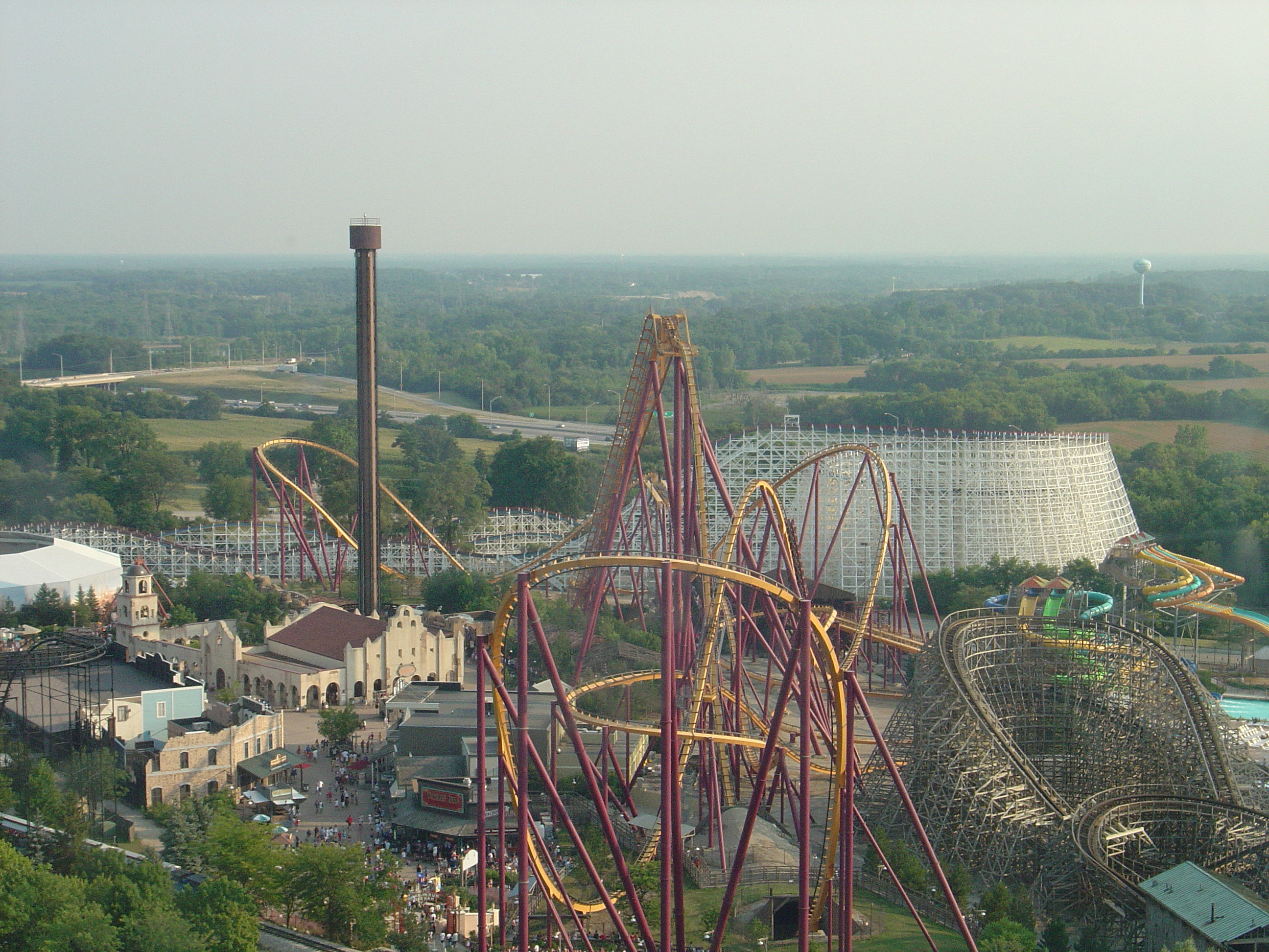 Raging Bull, hyper and mega roller coaster at Six Flags Great America, USA.